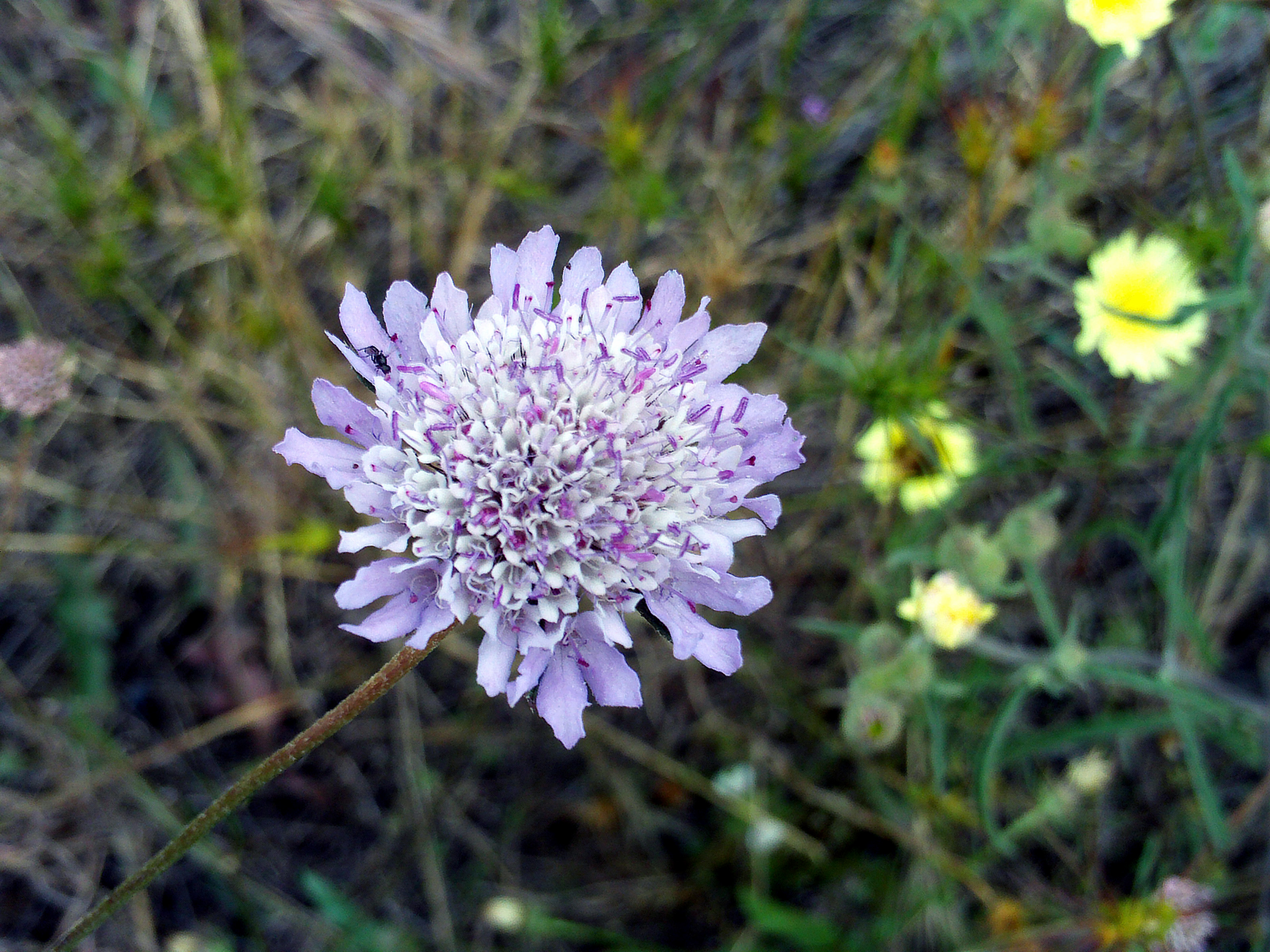 Scabiosa atropurpurea Close up Dehesa Boyal de Puertollano Spain.